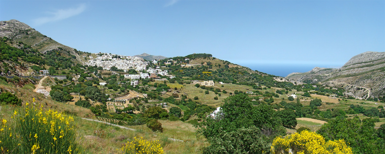 Apeiranthos, Naxos, Greece.